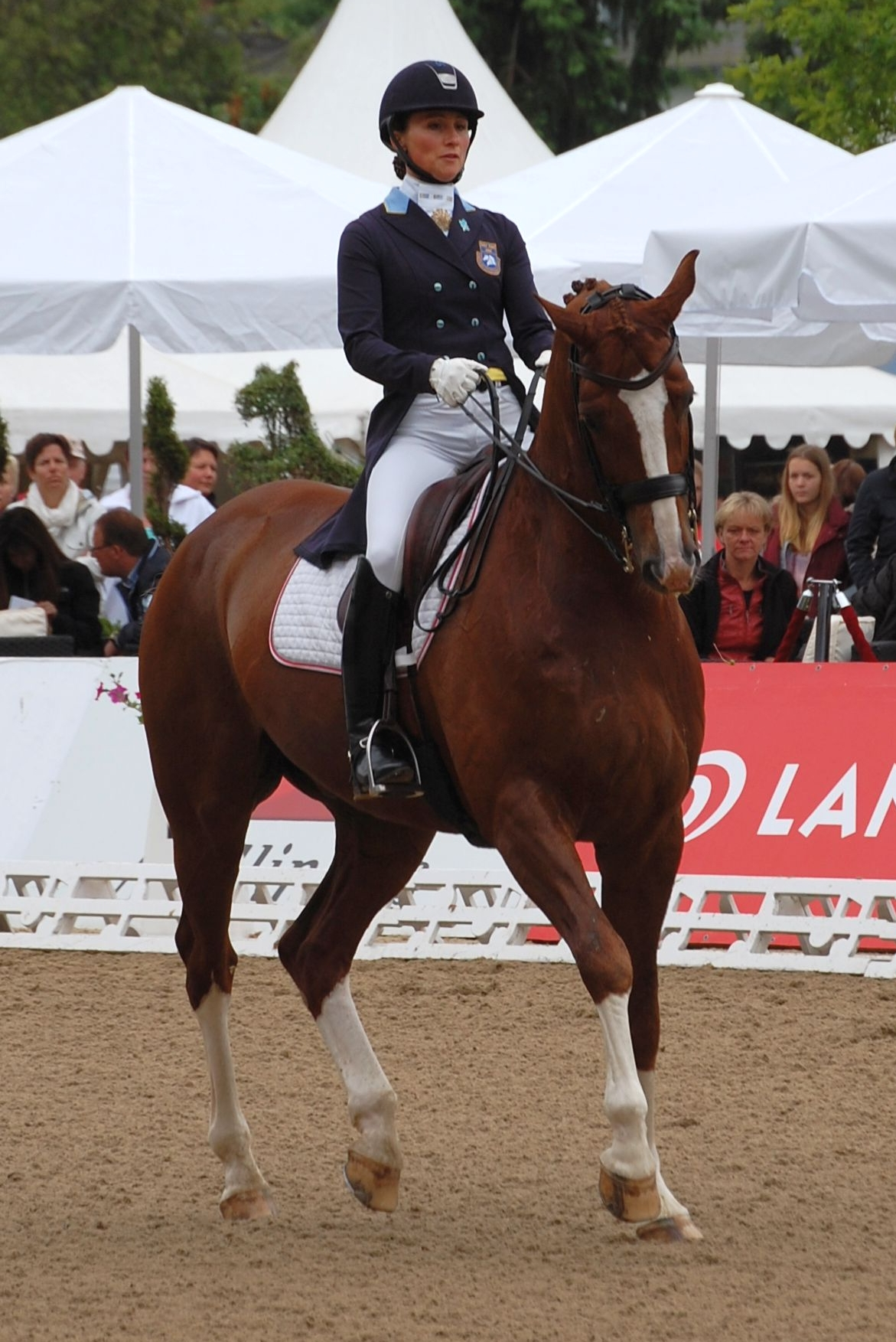 Minna Telde and her horse Deinhardt, 56th German dressage derby, a dressage competition with a horse change. Hamburg 2014.